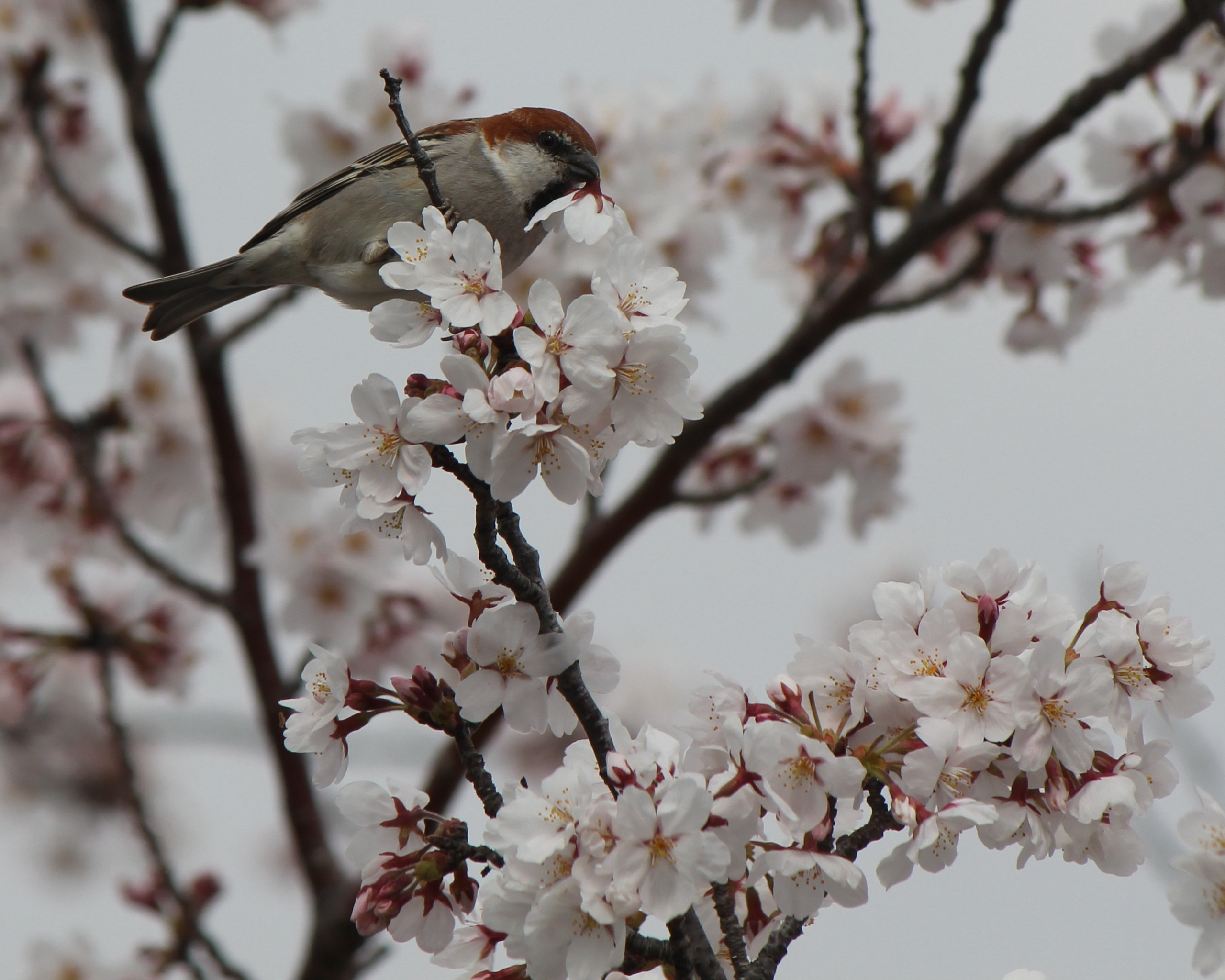 Russet Sparrow(Passer rutilans), male eating Prunus × yedoensis, in Aichi prefecture, Japan.